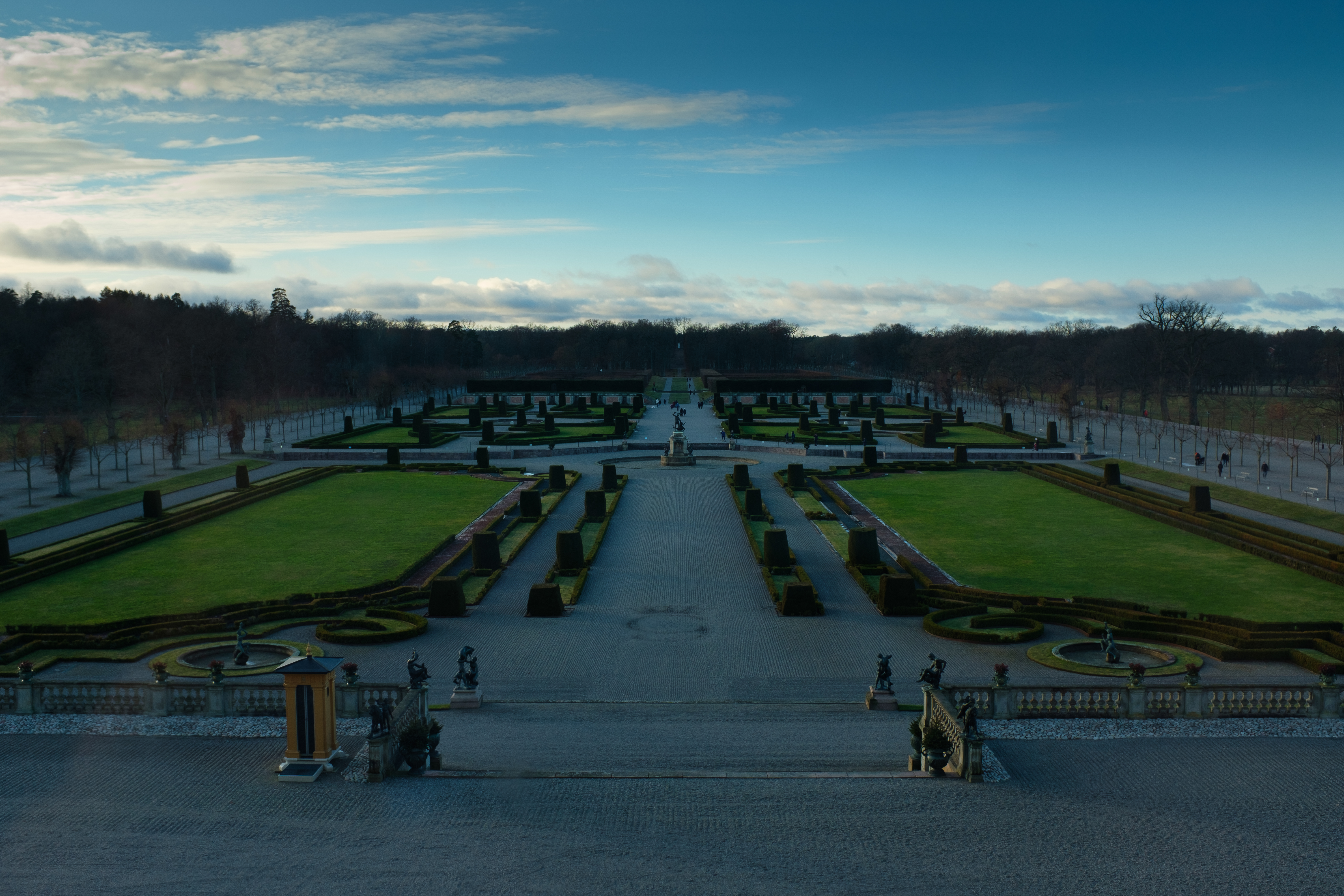 The baroque garden of Drottningholm palace.